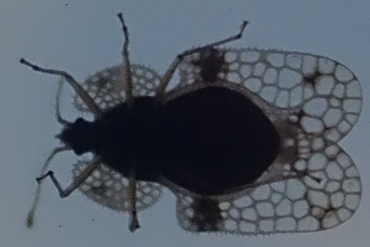 Macro photo of Corythucha ciliata taken through a window showing the bottom view.